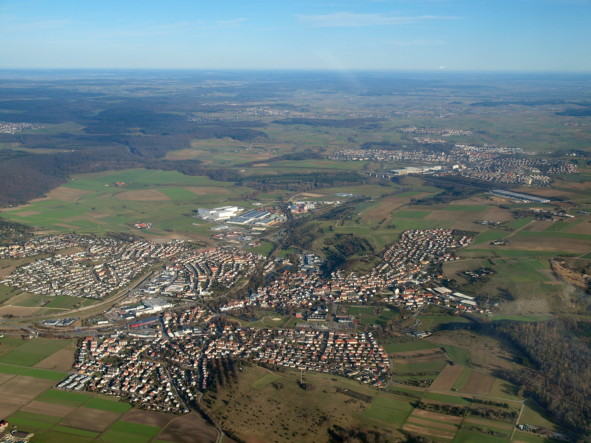 aerial view of Herbrechtingen, Germany